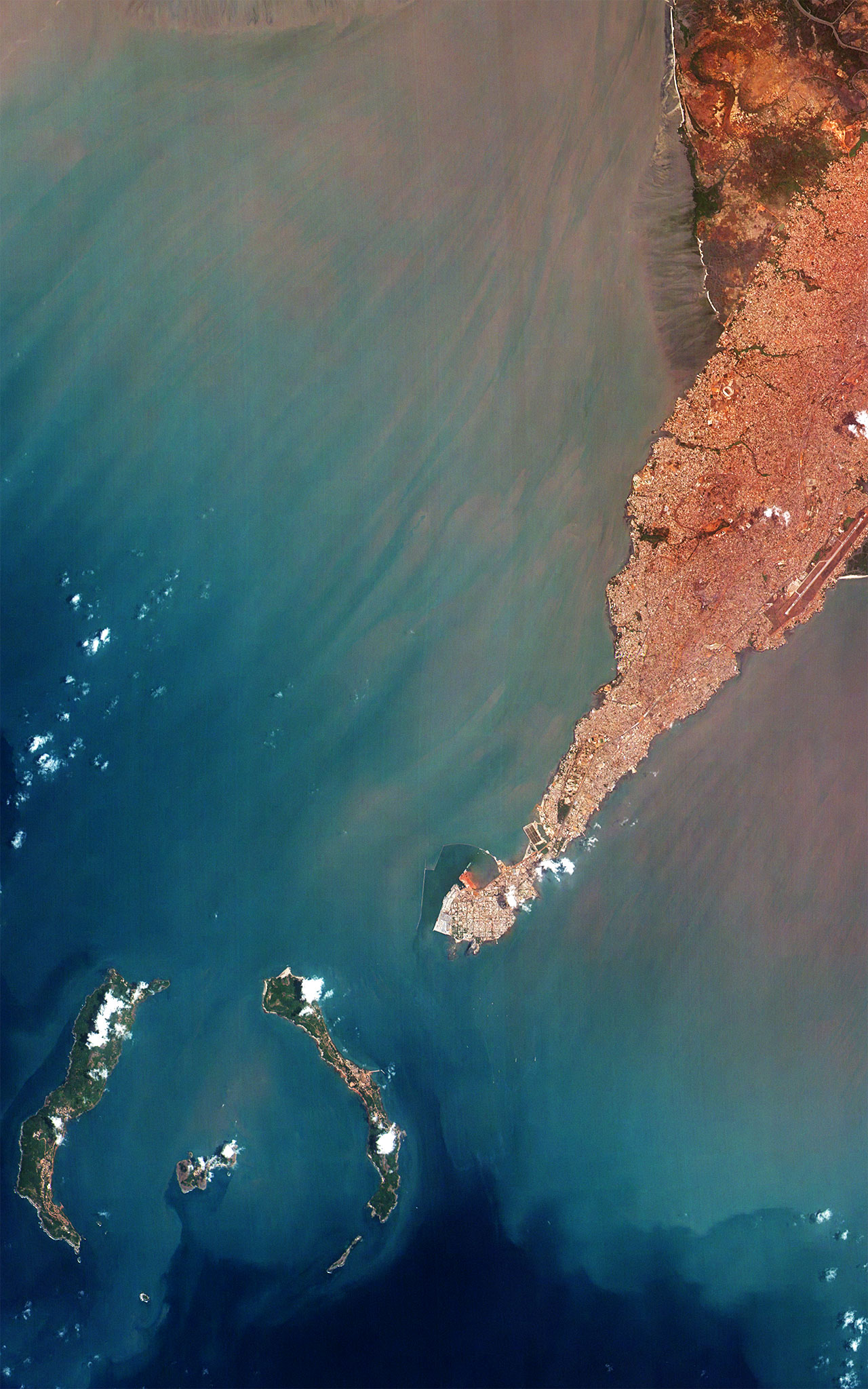 City of Conakry on the Kaloum peninsula, and Los Islands, in Guinea, as viewed by Hodoyoshi-1 satellite.